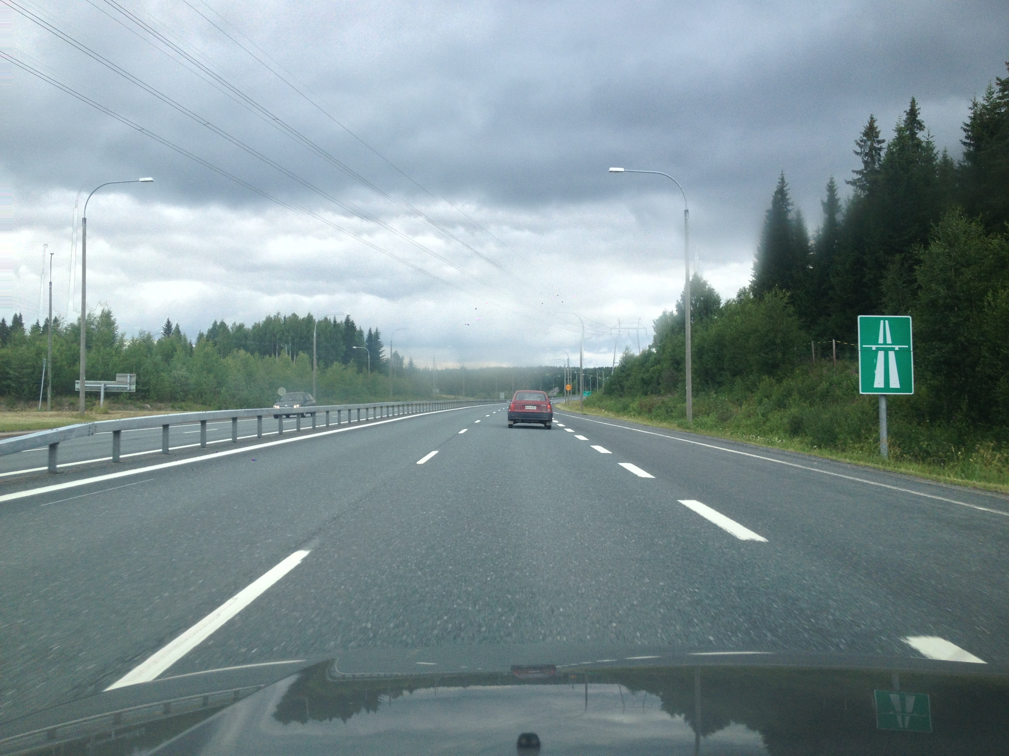 Main road 5 in Kuopio, Finland